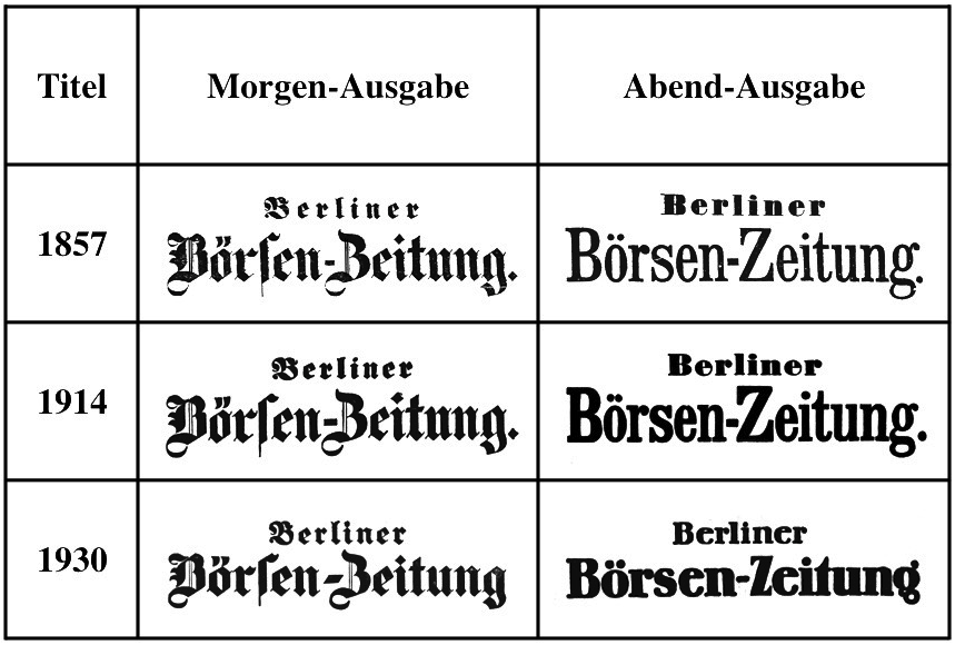 Typographical modifications in the title of former Berliner Börsen-Zeitung between 1857 and 1930. One column shows the title of Morgen-Ausgabe (morning edition) in Fraktur, the other one the title of Abend-Ausgabe (evening edition) in Antiqua, since both editions used a different typography. – The original titles in the chart can be slightly distorted as they are based on older scans by Berlin State Library.